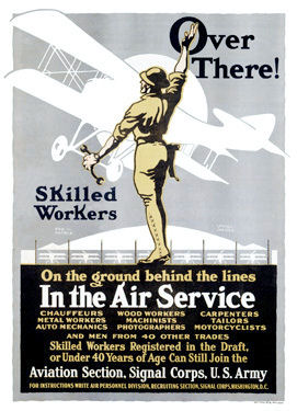 World War I US Army Air Service Recruiting Poster Source: USAF